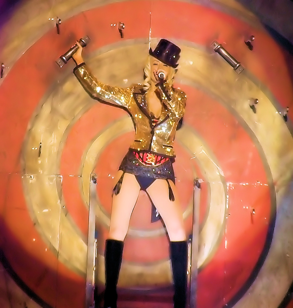 Christina Aguilera performing "Welcome"